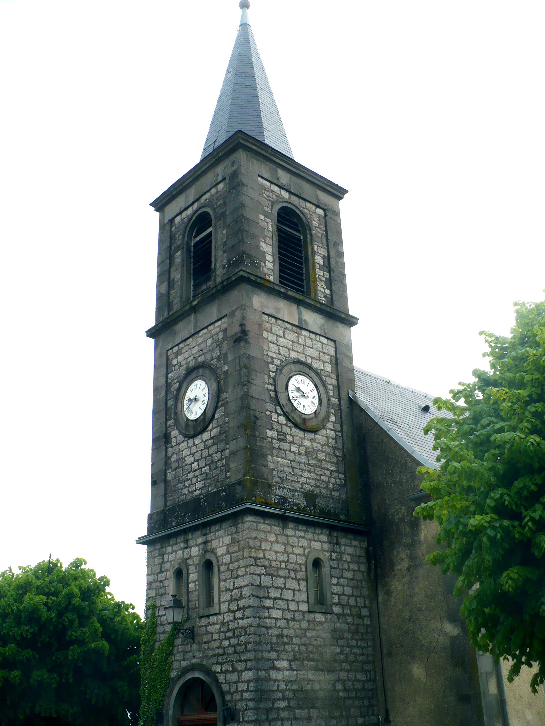 Church of Wintersbourg